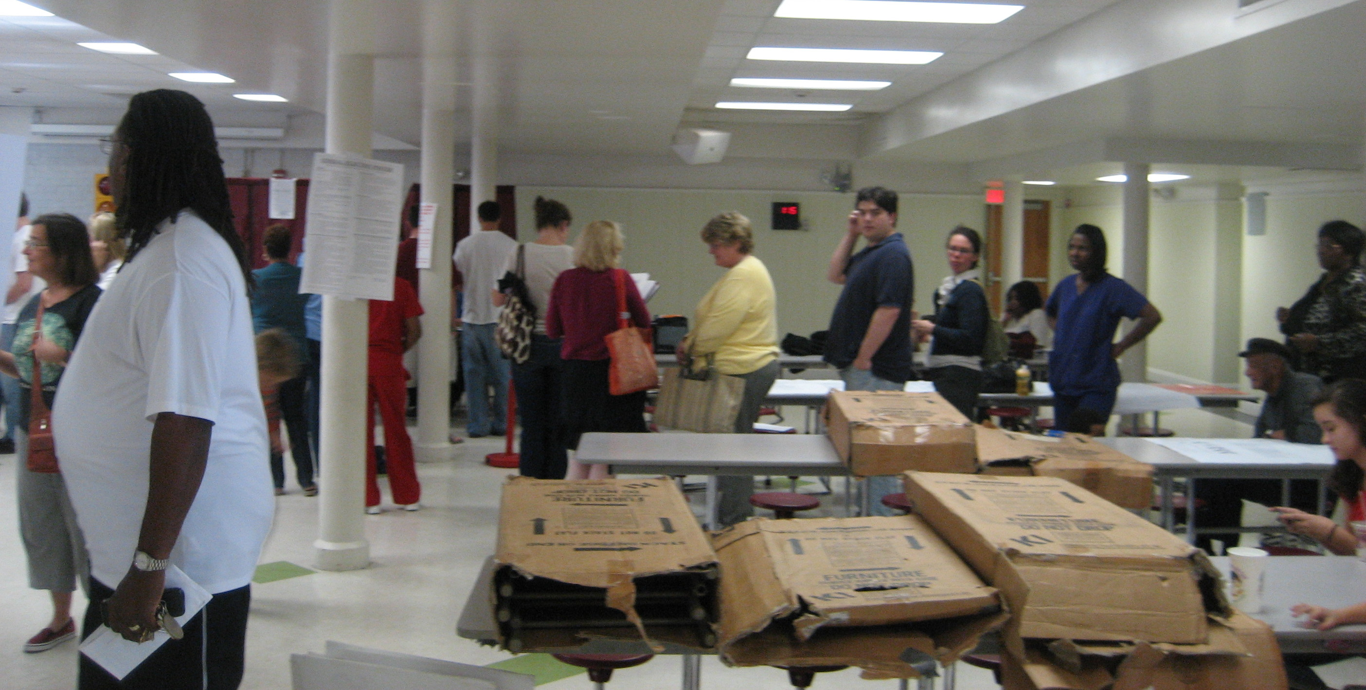 Lines for precinct voting booths, election day at Lusher School Building, New Orleans